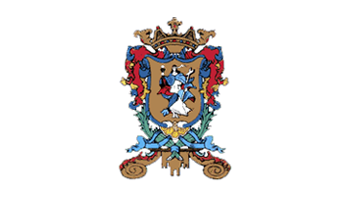 Flag of the State of Guanajuato, Mexico.